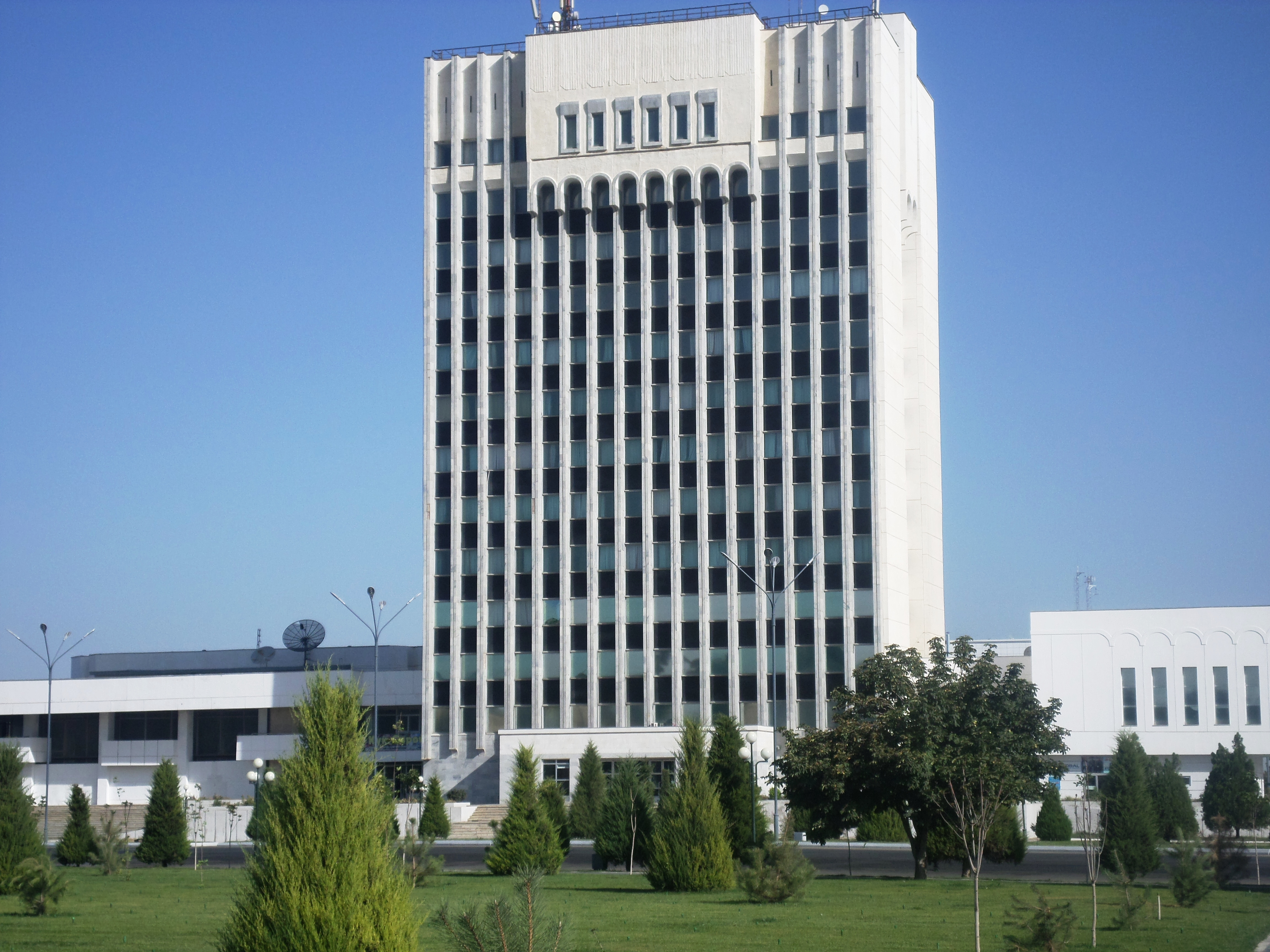 Office building in Samarkand